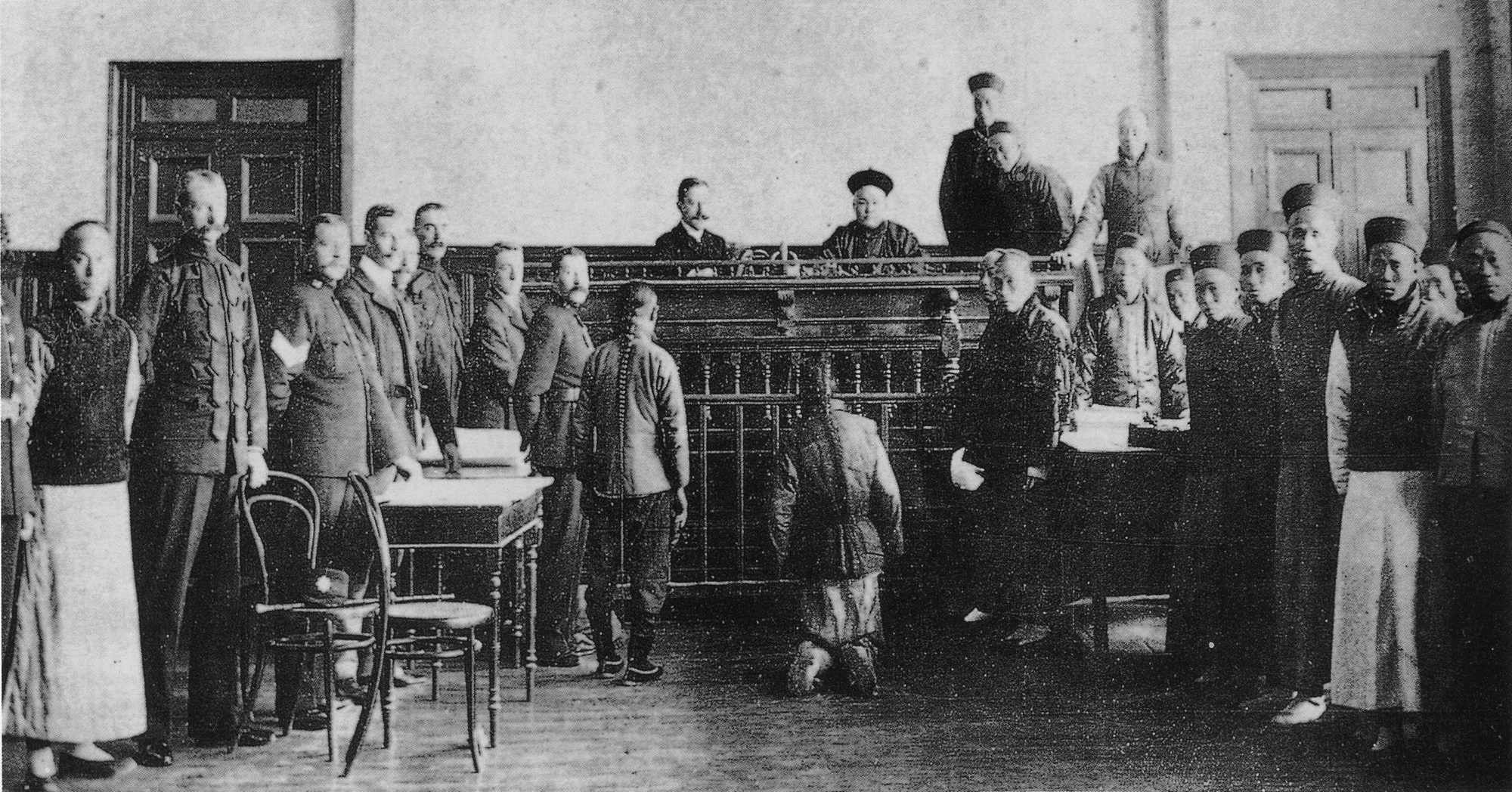 International Mixed Court at Shanghai